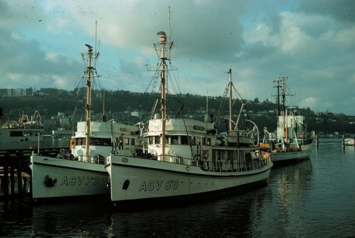 United States Coast and Geodetic Survey survey ships USc&GS Lester Jones (ASV-79), USC&GS Patton (AVS-80), and (at rear) USC&GS Hodgson